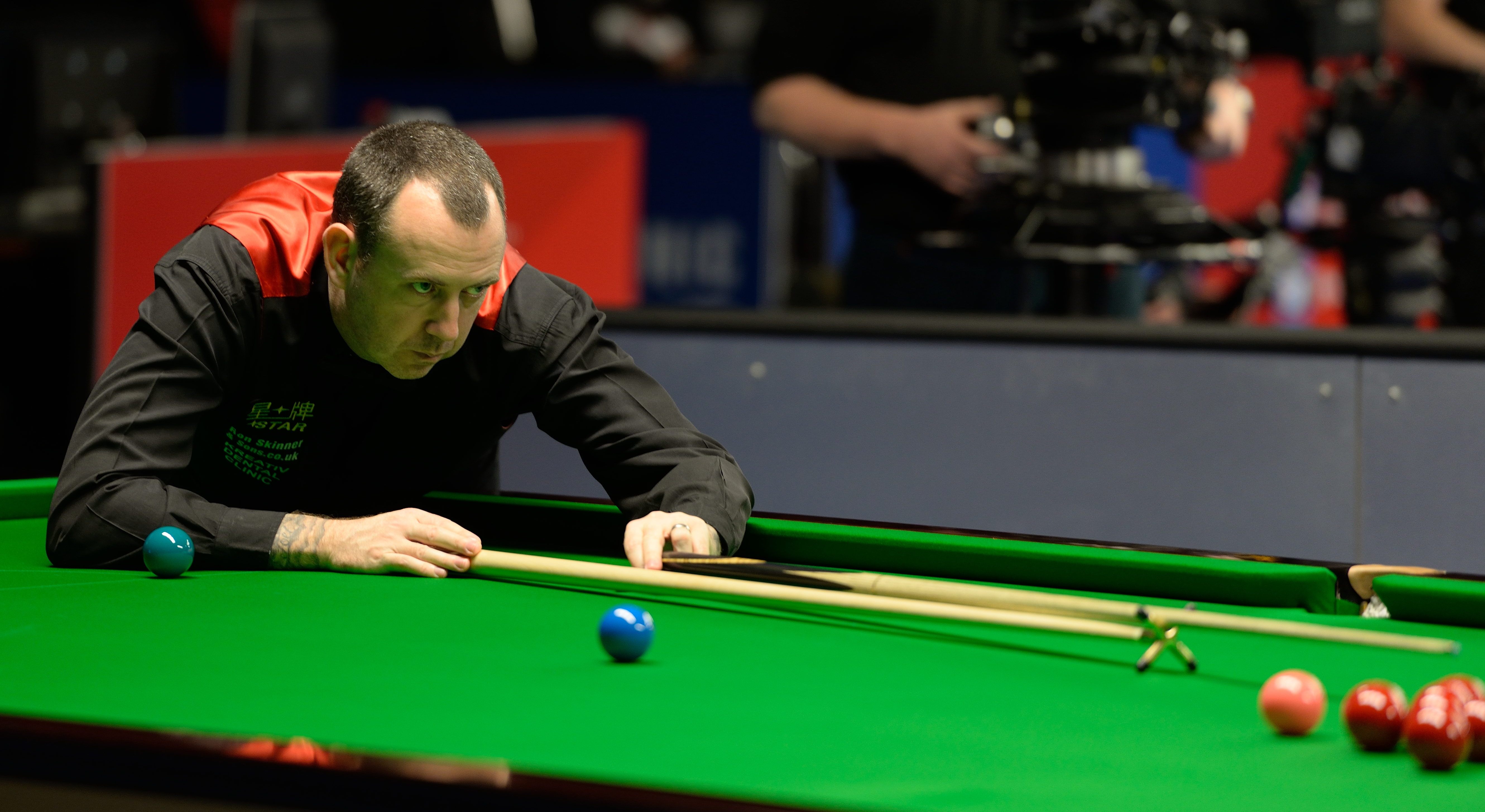 Picture taken in Berlin during the Snooker German Masters in 2015. Mark Williams.